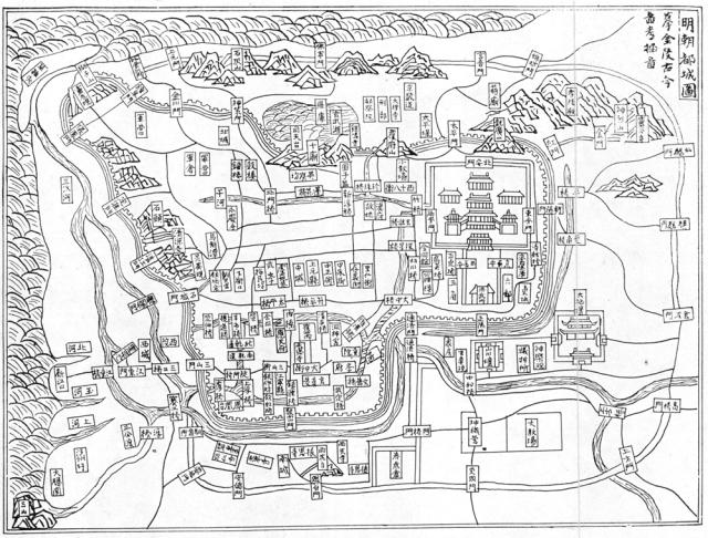 Map of Nanjing under the Ming Dynasty.